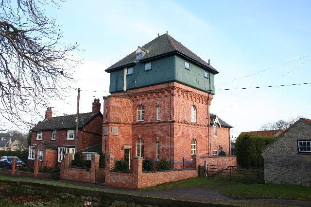 Potterhanworth Water Tower. Potterhanworth Water Tower was built in 1903 with a tank capacity of 37,000 gallons filled from a 150ft deep artesian bore hole in a nearby field. It was financed by an Endowment from Christ's Hospital as the 16th century philanthropist Dr.Richard Smith, founder of Christ's Hospital in Lincoln had land in Potterhanworth .... his coat of arms can be seen in the brickwork. The two rooms below the tank were used for Parish Council meetings, the Men's Institute and, during the war for the Home Guard platoon. The tower was declared redundant in 1978 and tastefully converted to a private house in 1995.